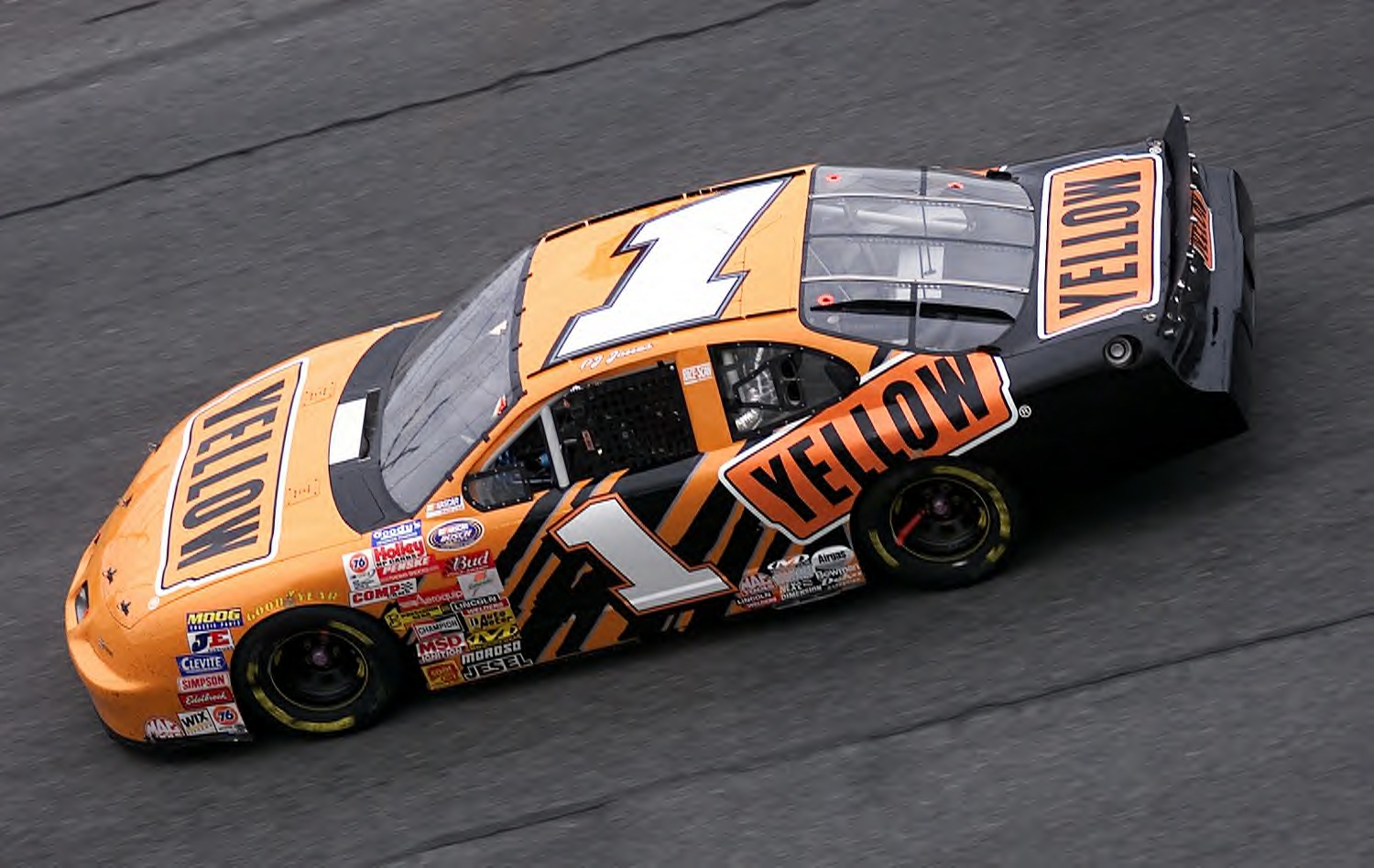 P.J. Jones